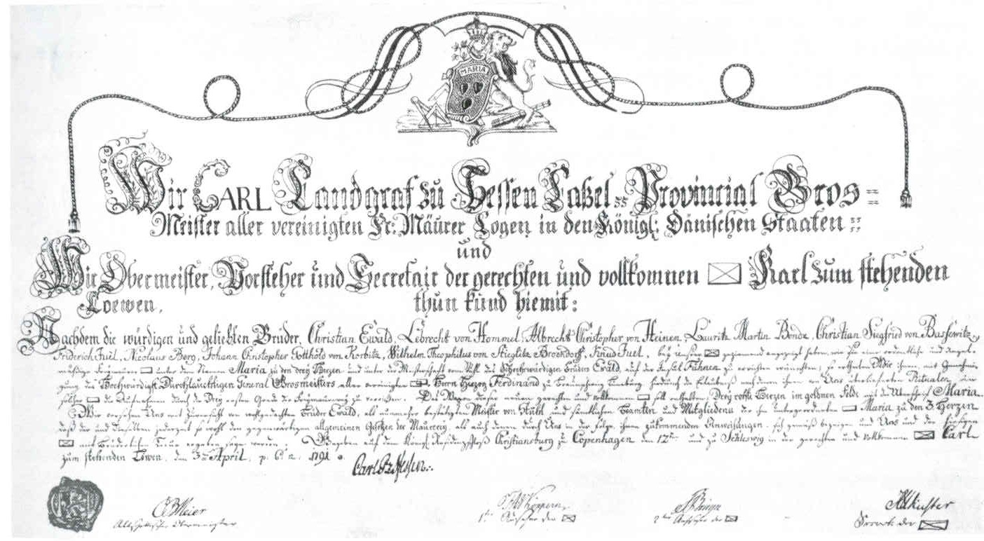 Charter of the Danish Lodge of St. John no. 2, «Maria til de tre Hjerter» (Mary to the three Hearts), founded on 3 April, 1791 in Odense, Denmark.